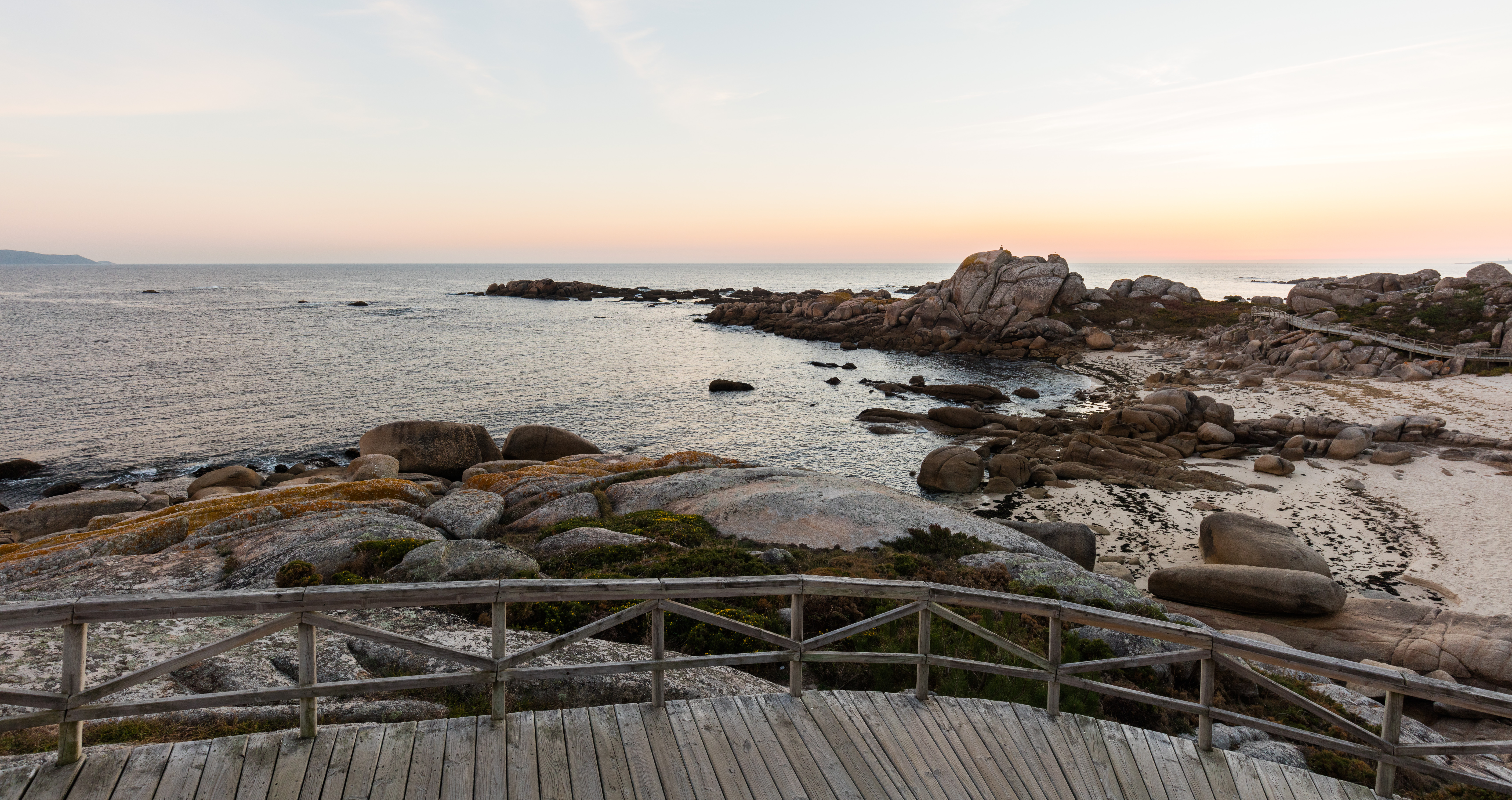 Coast of St Vicente, El Grove, Pontevedra, Spain